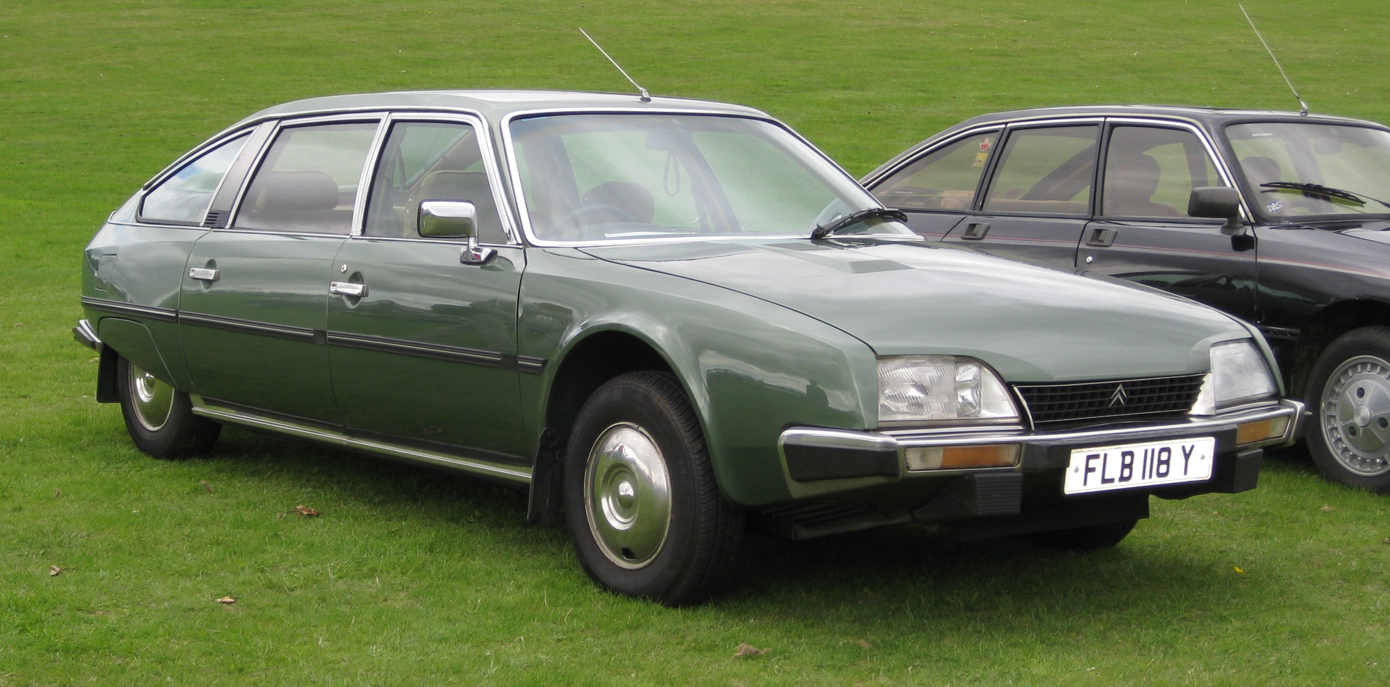 Citroën CX lwb. The adjacent car is a (similarly profiled but smaller) Citroën GSA.